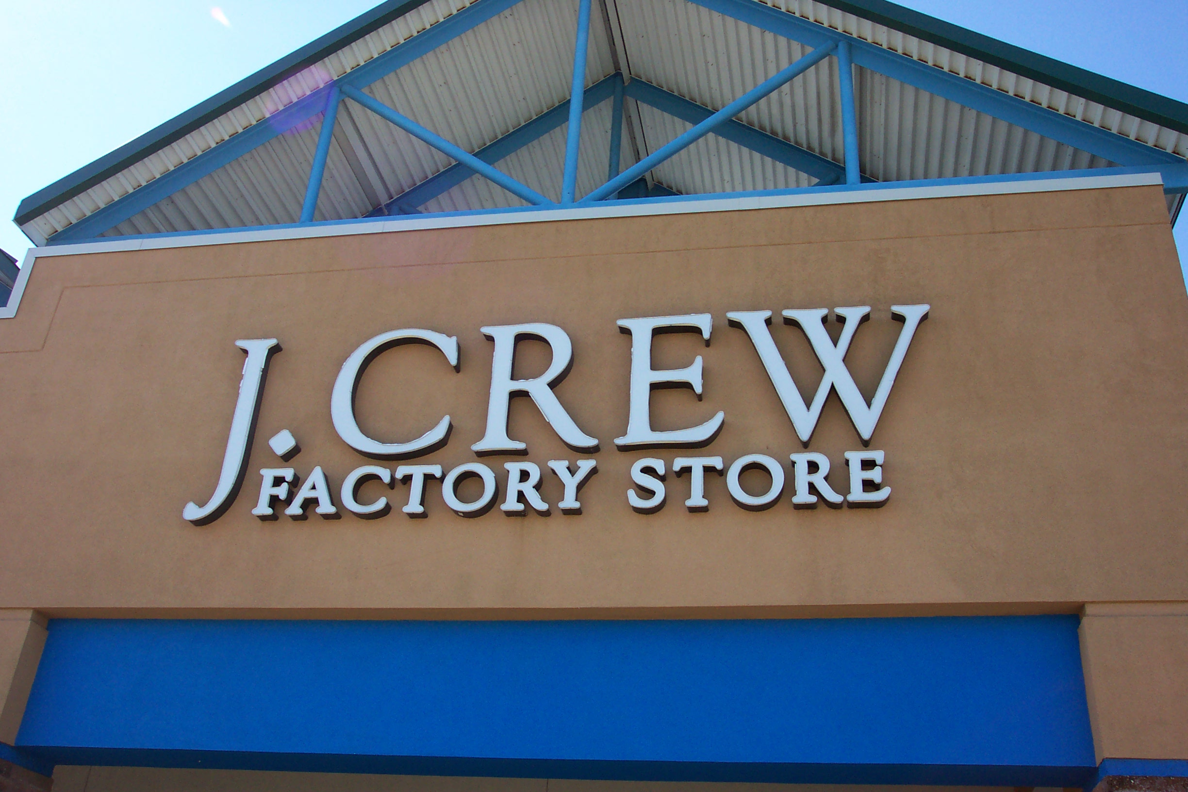 Exterior signage in front of J. Crew's Factory Store at Riverhead's Tanger Mall.